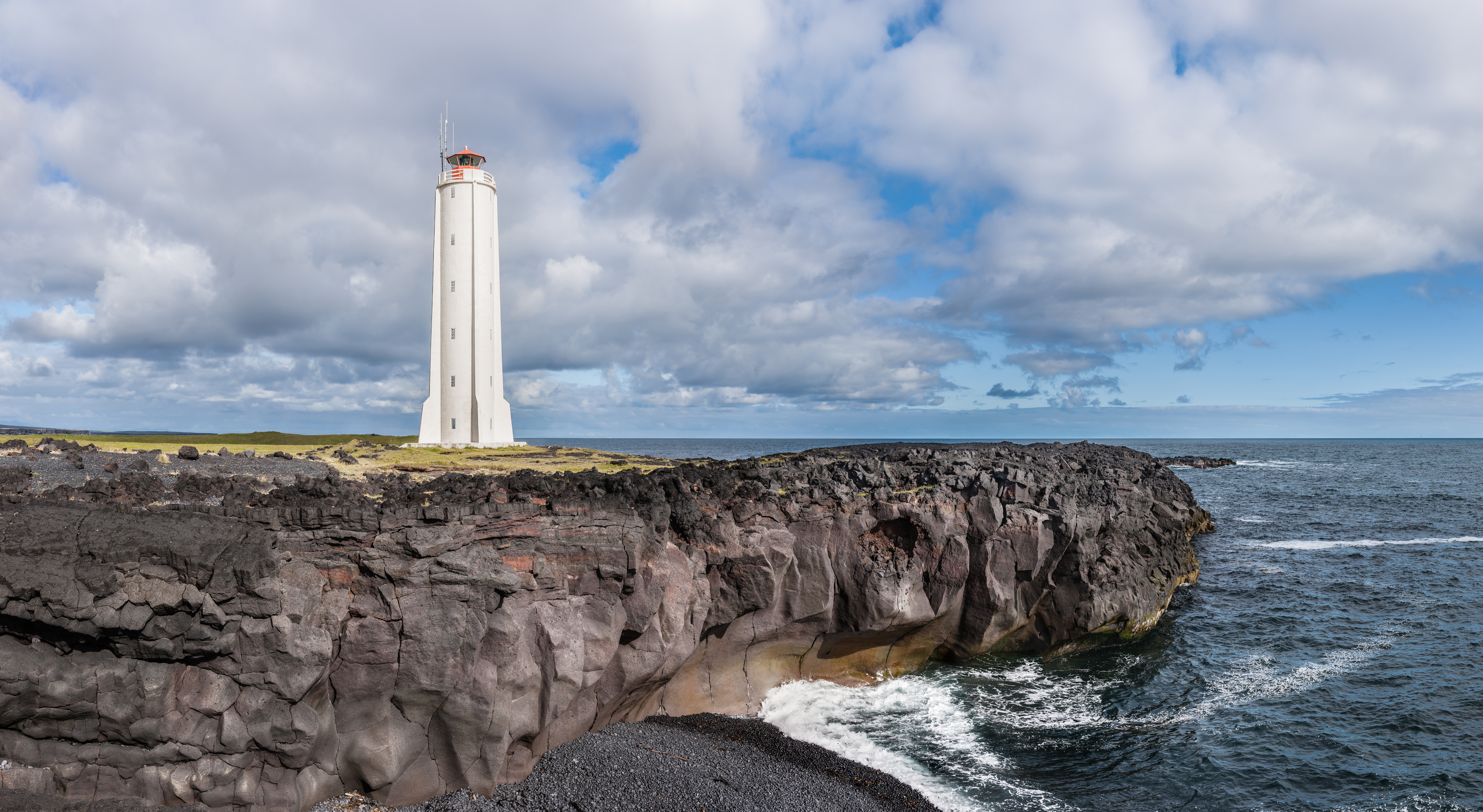 Lighthouse Malarrif, Snæfellsnes, Iceland Ślůnski: Morsko latarńijo, Snæfellsnes, Islandyjo.